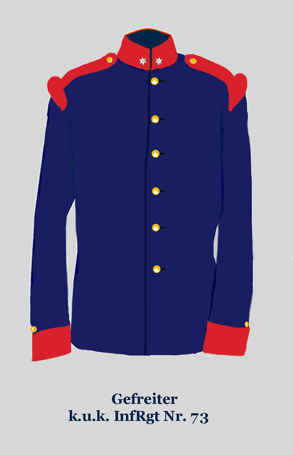 Private 1st class in the k.u.k. german 73rd Infantry Regiment (Collar cherry, buttons yellow)